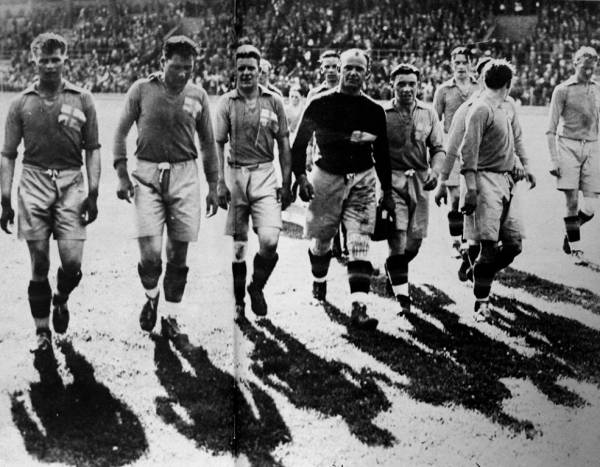 Swedish national soccer team after winning 6-3 against Norway at the Stockholm Stadium on 6 July 1930